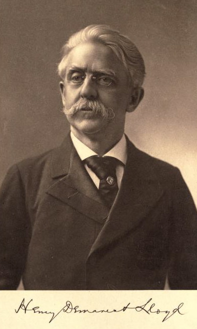 Henry Demerest Lloyd, muckracking journalist, from Chicago. Lived in Winnetka, where his house "The Wayside" is a National Historic Landmark. The photo is from a biography written by his daughter in 1912 "Henry Demerest Lloyd, A Biography, 1847-1903 by Caro Lloyd, Putnam, New York and London, 1912" available at above website. Out of copyright